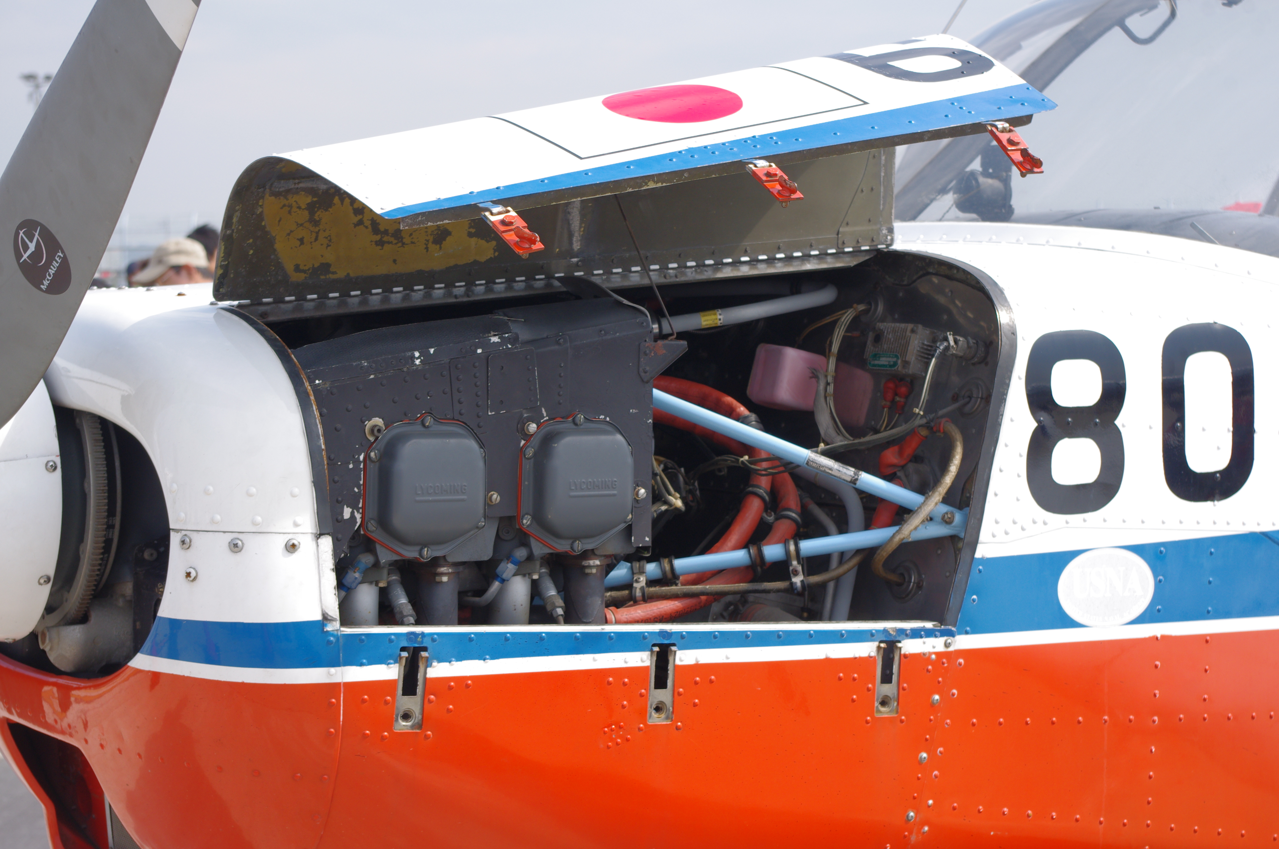 Taken at Centrair on 14 Oct 2012.